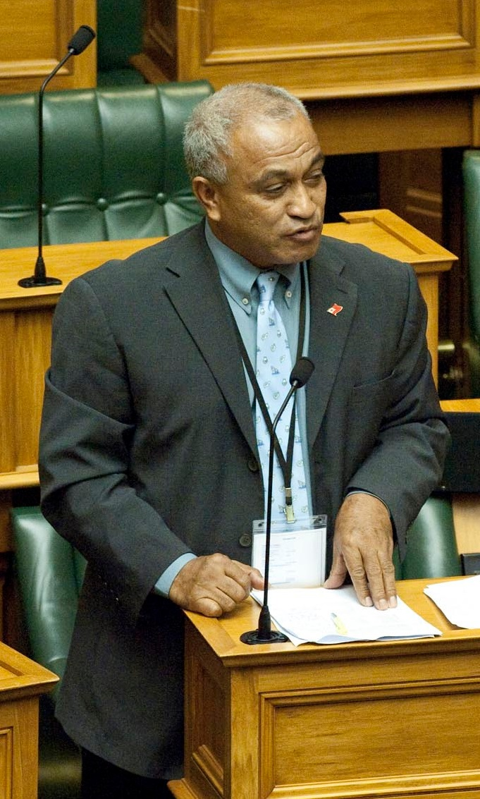 Pacific Parliamentary and Political Leaders Forum, 2013 : Debate Two, Climate Change and Environment. Participants speak : Hon. Siosifa Tu'itupou Tu'utafaiva, Tonga.